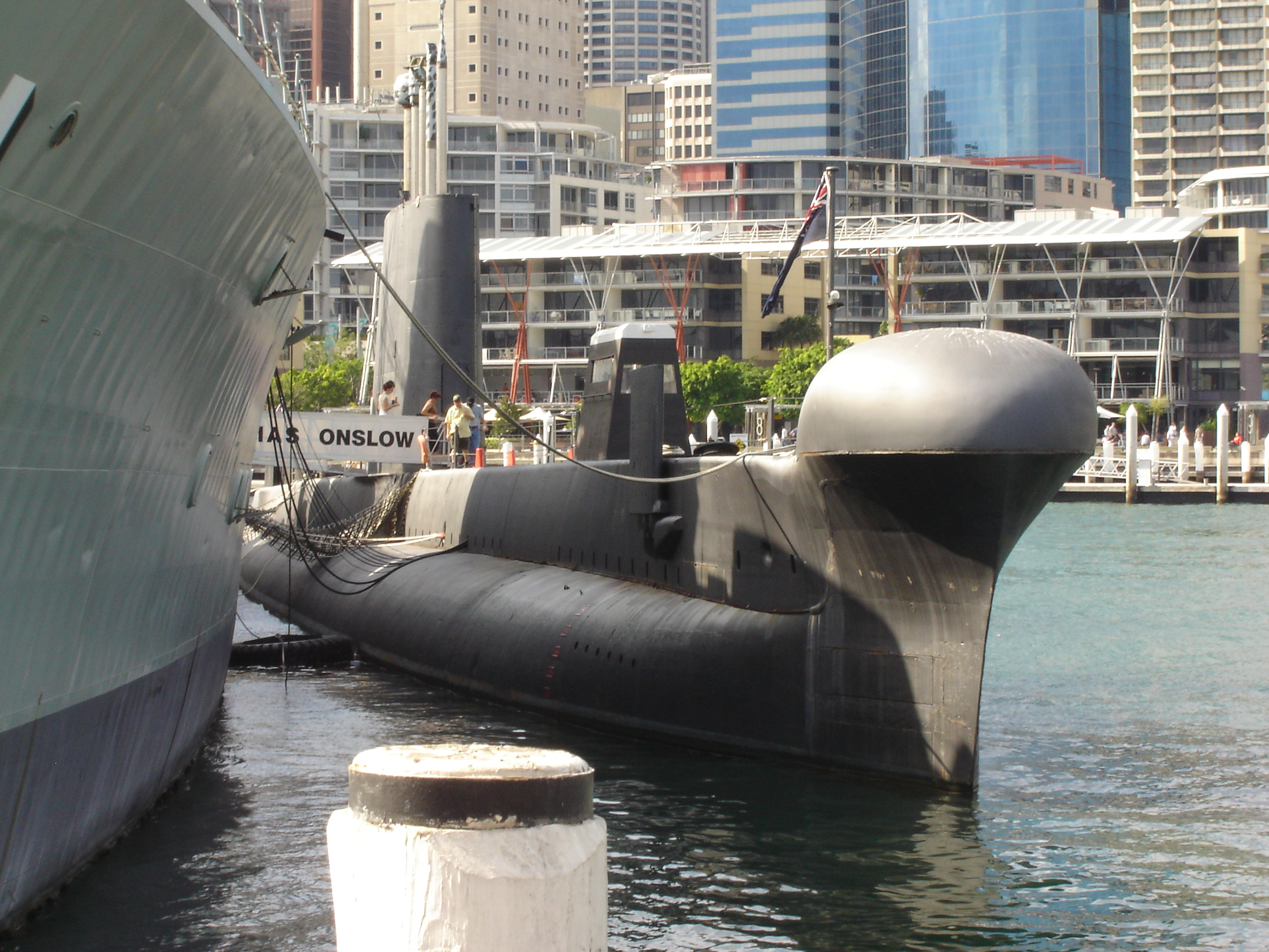 HMAS Onslow (S60) Oberon class submarine at the Australian National Mairitme Museum, Sydney, NSW, Australia.